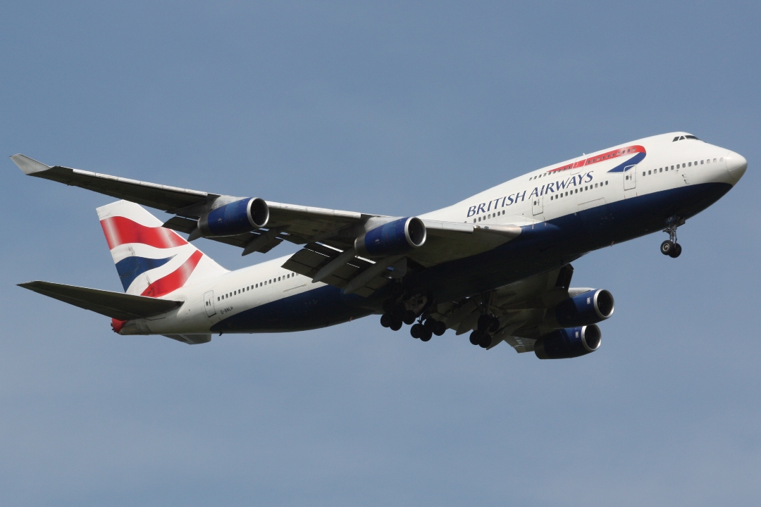 British Airways, B747-436, G-BNLH, on finals to London Heathrow.